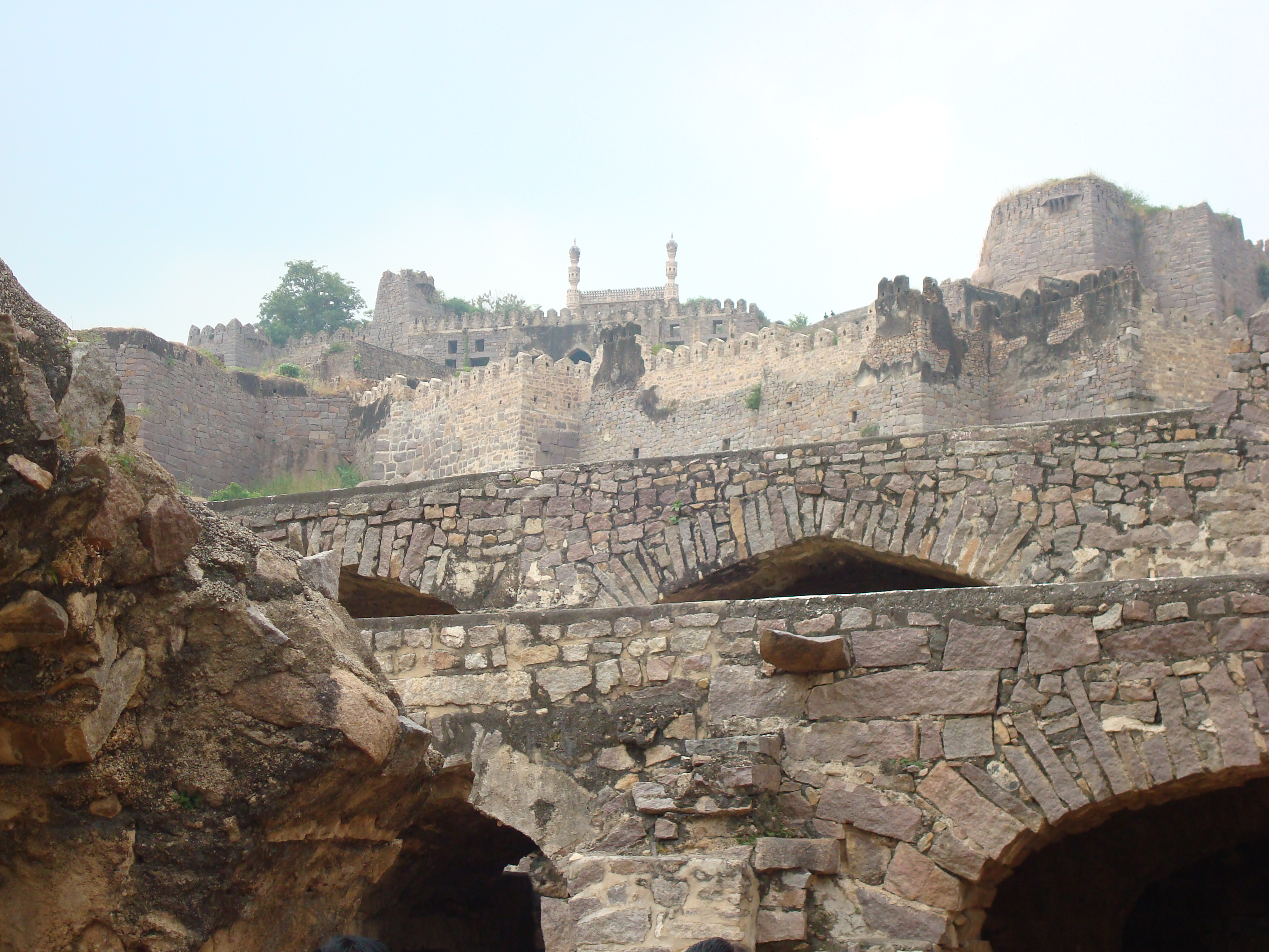 Picture of Golconda fort.